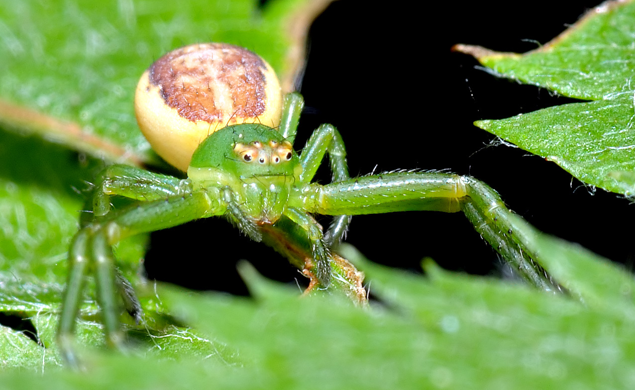 This image shows a 0.18 inch (4.5 mm) long Diaea dorsata spider.